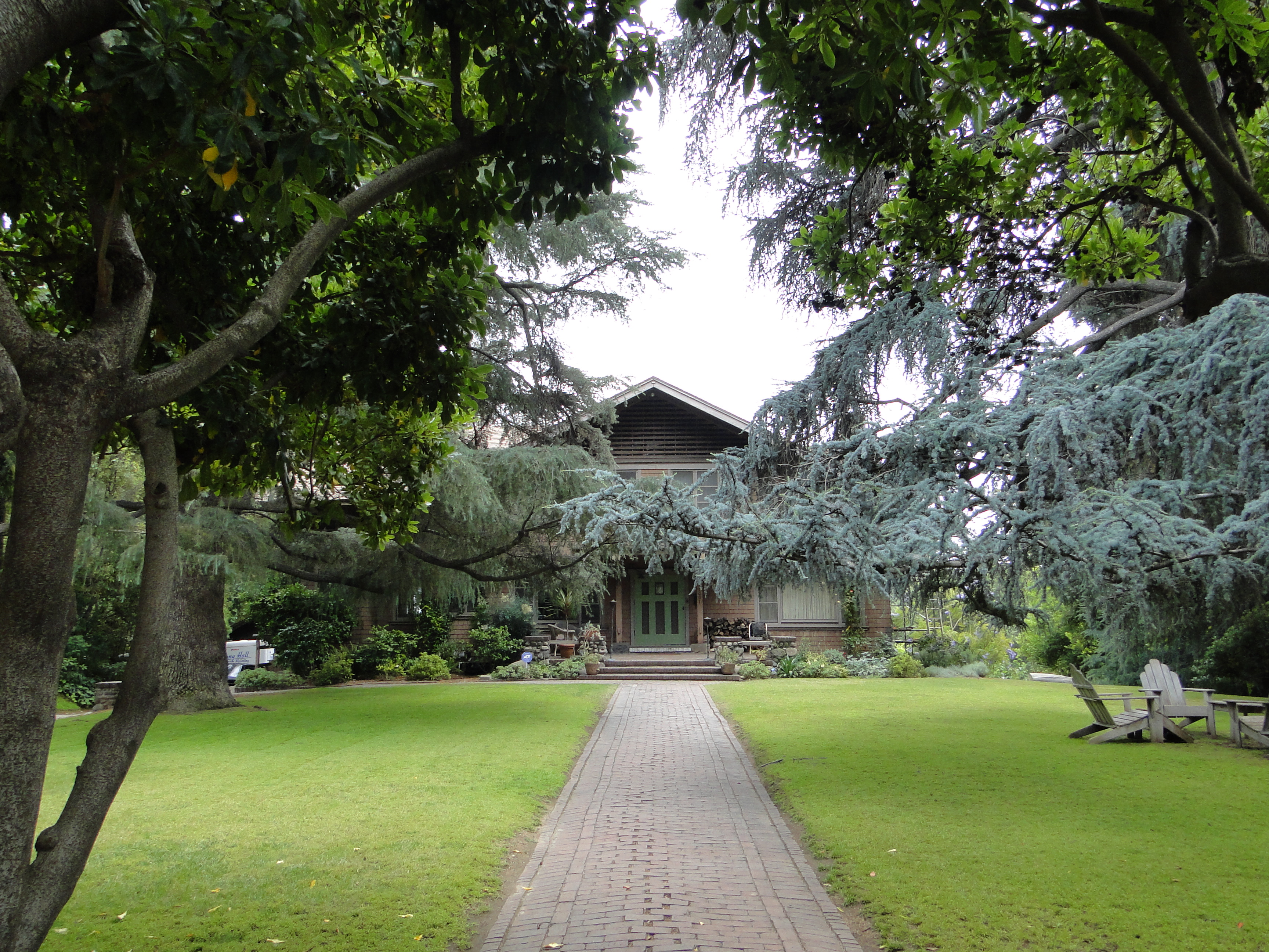 Garfield House — 1001 Buena Vista St., South Pasadena, southern California. Designed by Greene & Greene, built 1903-1904 for Lucretia R. Garfield, widow of the assassinated president of the United States. Listed on the National Register of Historic Places in Los Angeles County.